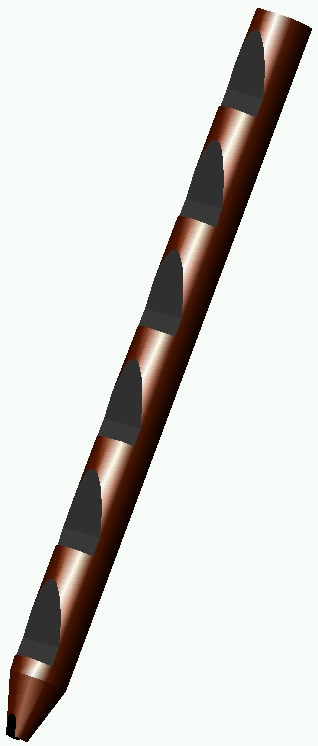 so-called «Steigbaum» (lit. climb tree), a prehistoric until modern age used ancestor of the ladder. Scheme after drawing in: Klose 1918, p. 4.